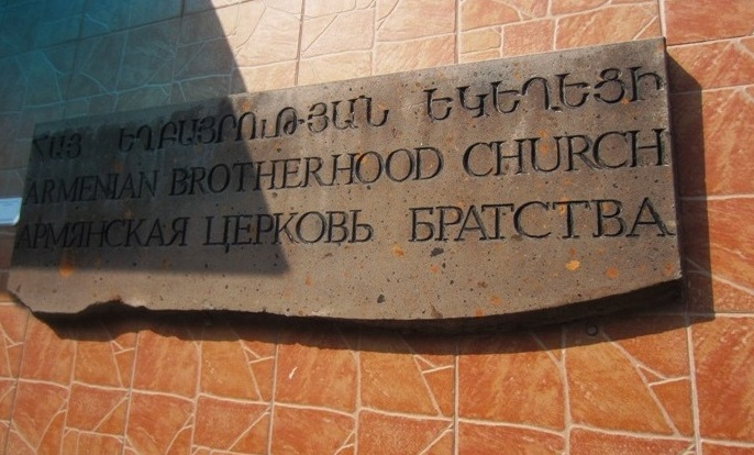 Armenian Brotherhood Church of Yerevan